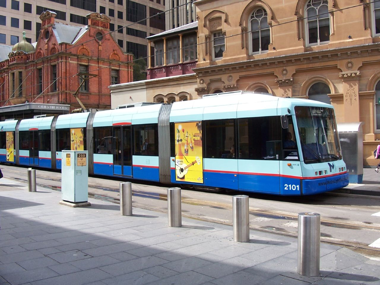 Metro Light Rail